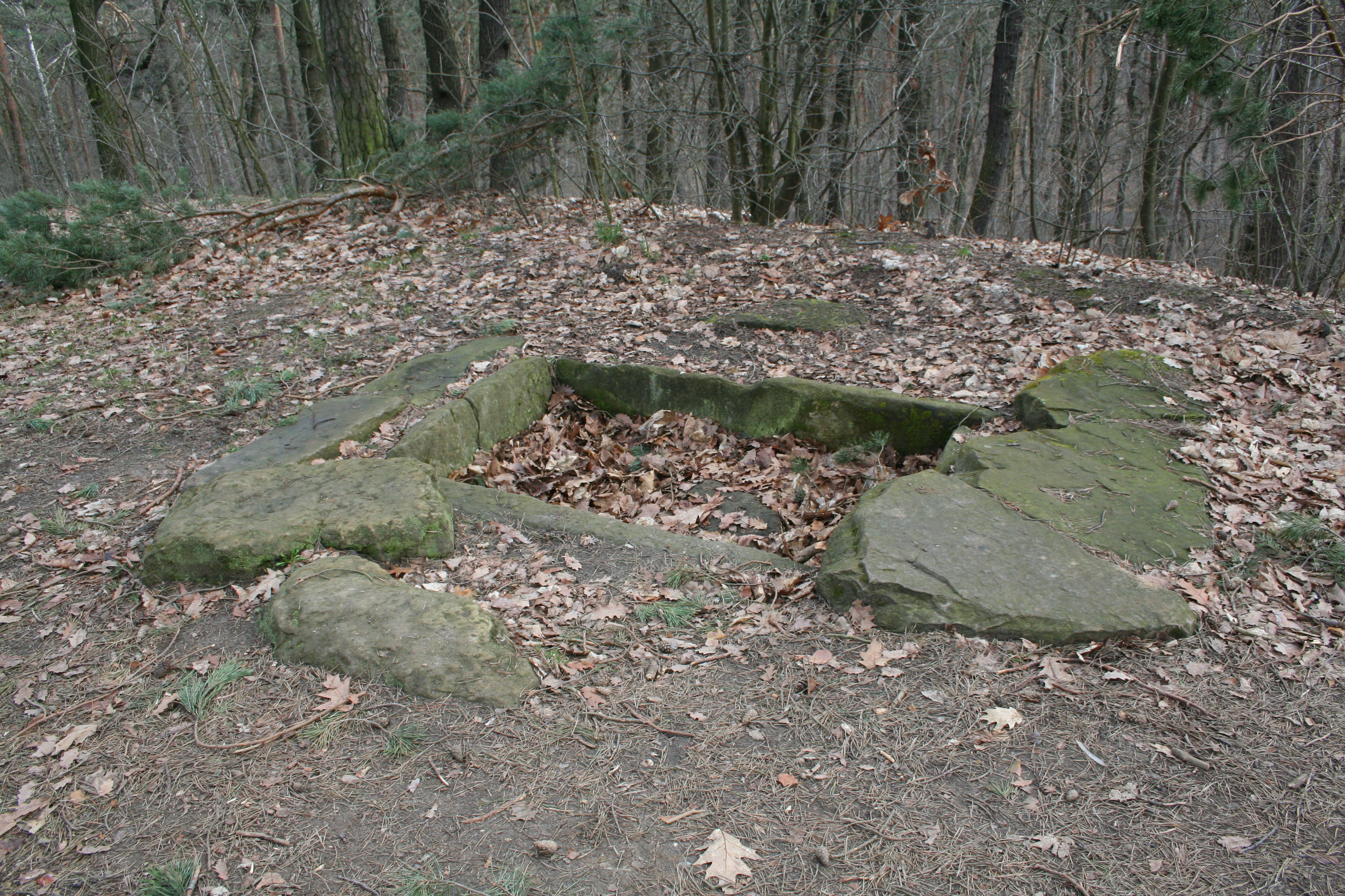 Burial mound 36 with reconstructed cist grave at Dölauer Heide, Halle (Saale)